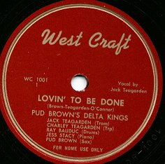 West Craft 78 record; for West Craft Records article